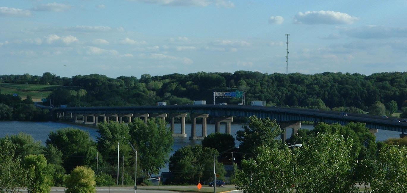 The Fred Schwengel Memorial Bridge (Interstate 80) over the Mississippi River, as viewed from the Iowa side